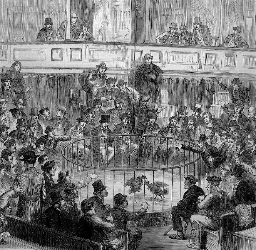 Sunday Cockfight at Madrid, a wood engraving published in Harper's Weekly, September 1873.